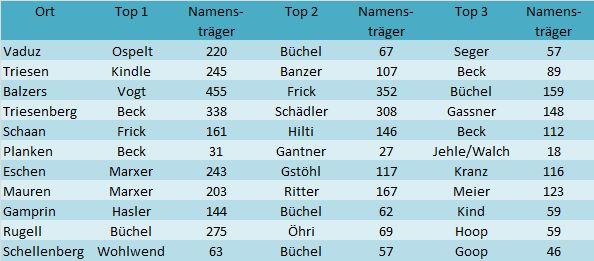 Surname in the Principality of Liechtenstein, Top 1 - 3